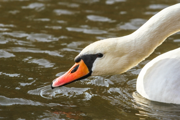 Head of the Mute Swan